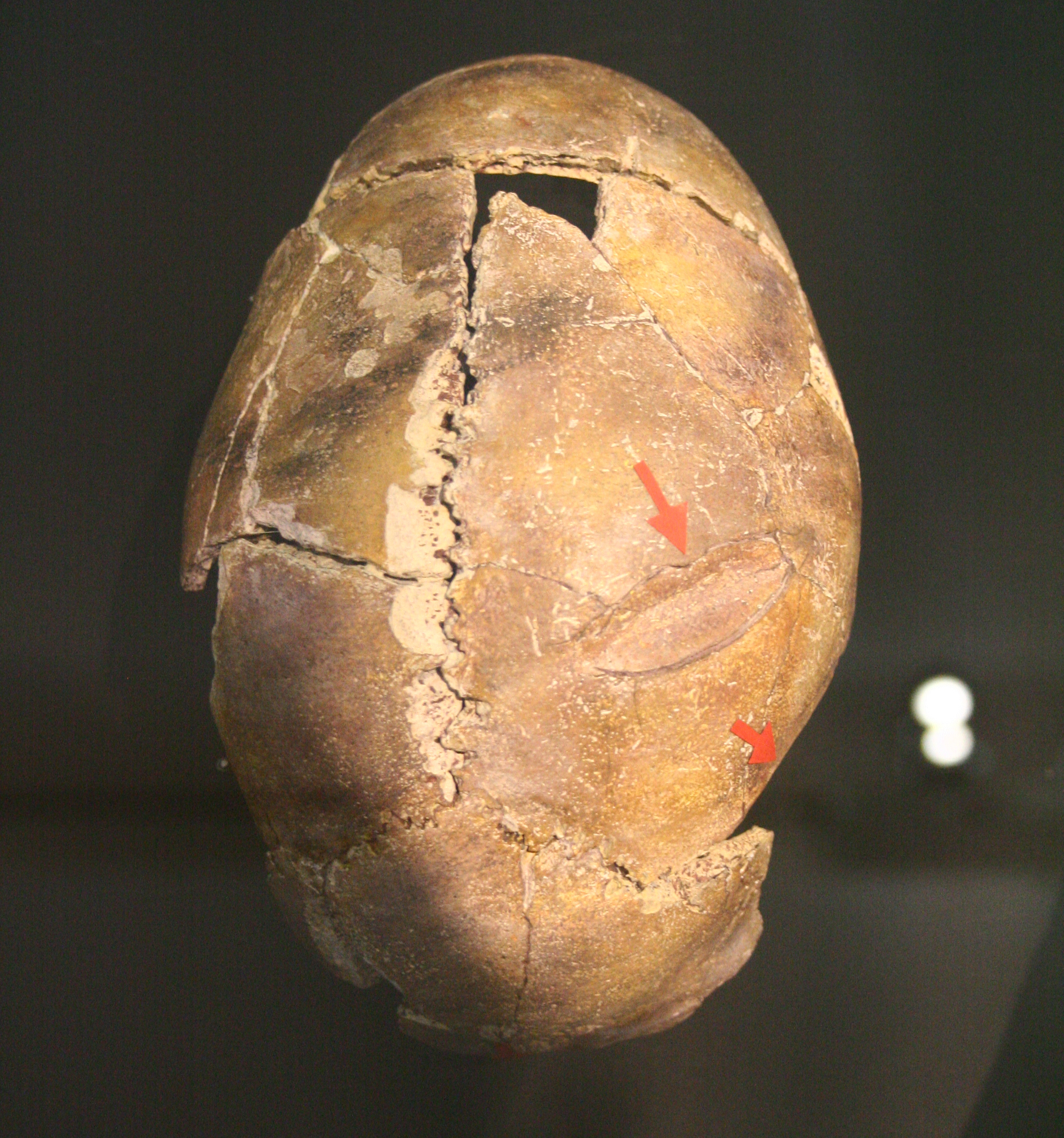 Skull of a 20 to 30 year old man, killed in the Talheim massacre, ca. 5100 BC. State museum Württemberg, Stuttgart